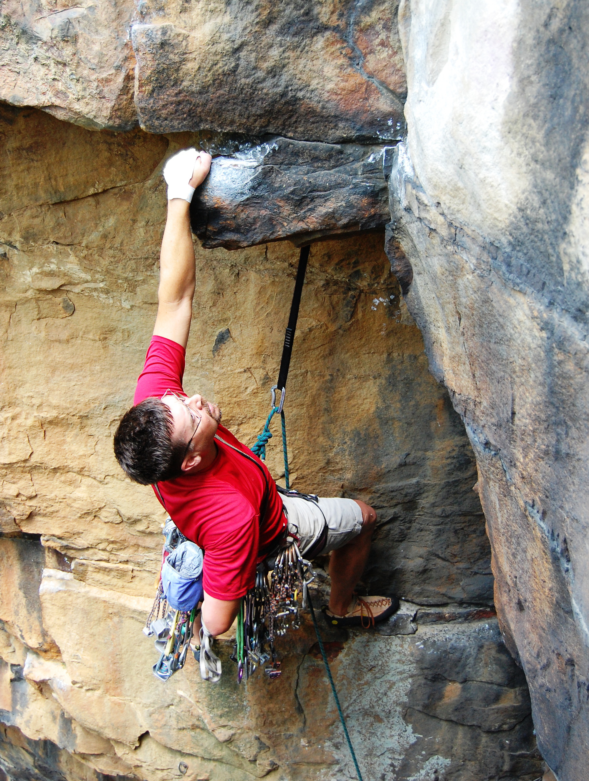 Climber on Supercrack at Beauty Mountain cliff in New River Gorge, West Virginia, USA.